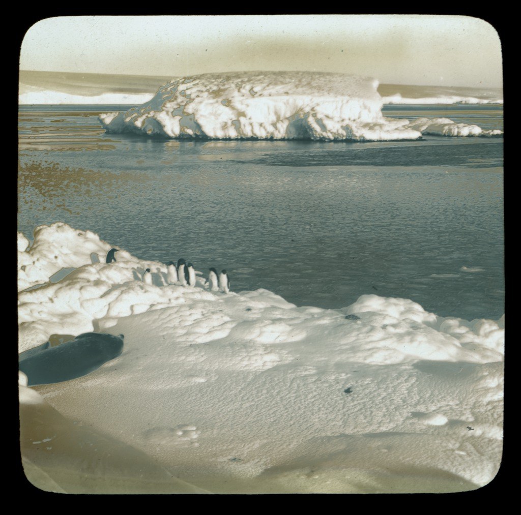 A group of seven penguins and a sea-elephant on an icy shore, an iceberg and the sea, Australasian Antarctic Expedition, 1911-1914.